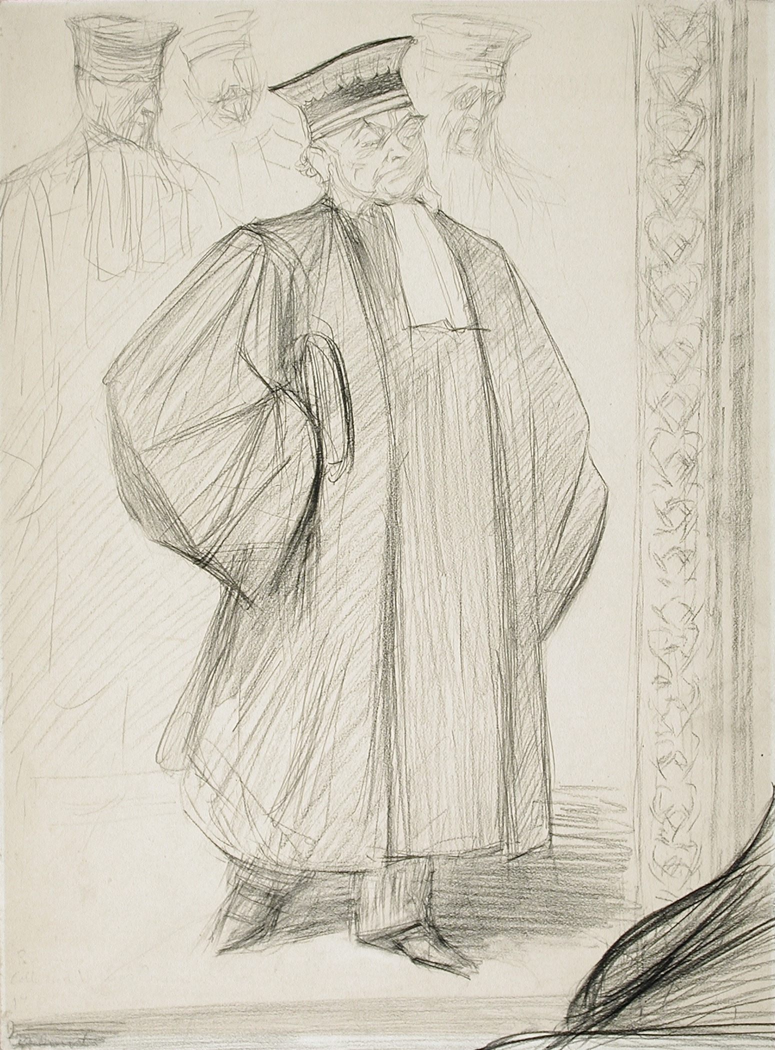 France, 1898 Drawings Black crayon Sheet: 14 x 10 1/2 in. (35.56 x 26.67 cm) Gift of Mr. and Mrs. Ross R. De Vean (M.74.55) Prints and Drawings